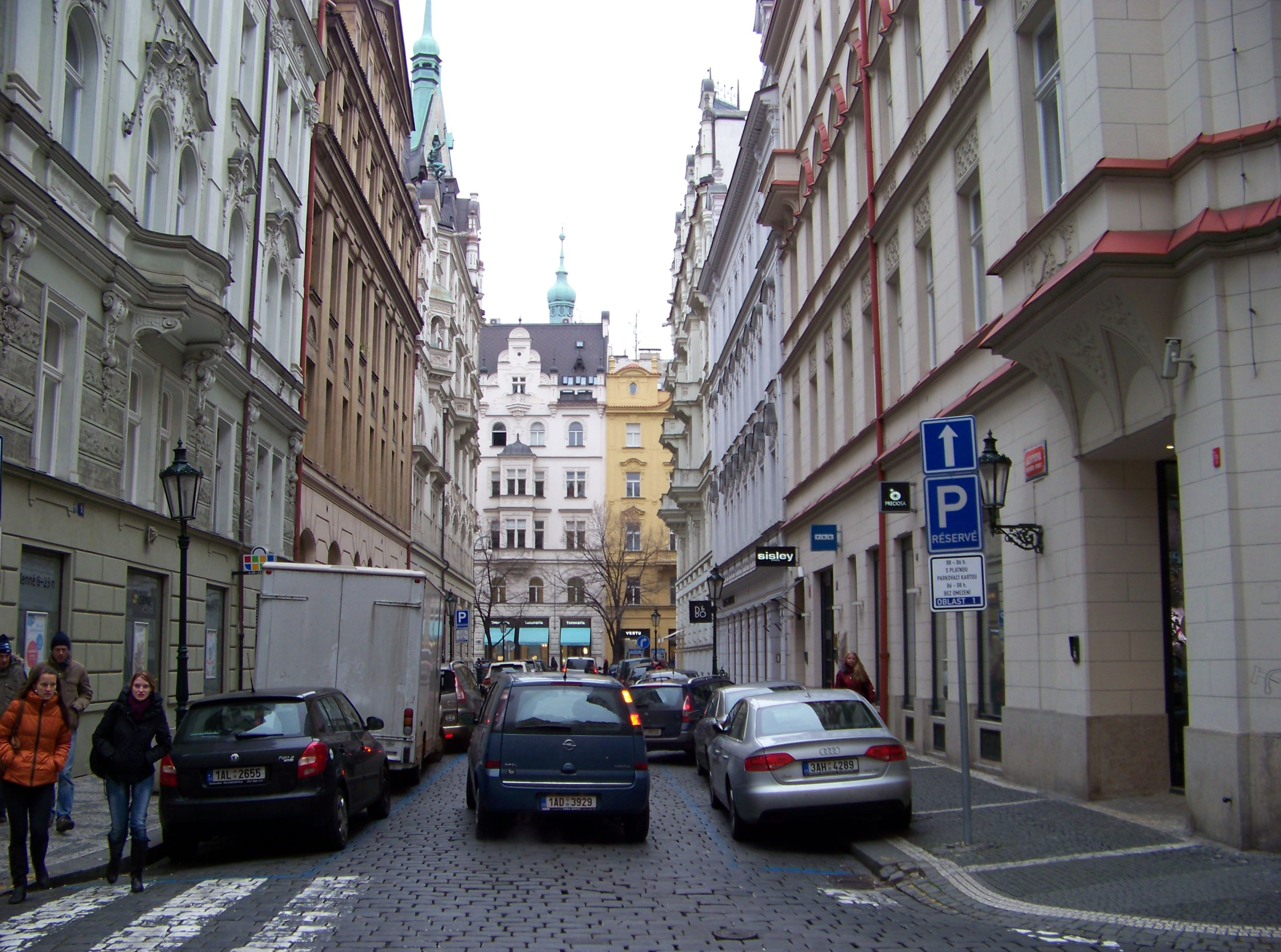 Prague-Josefov and Old Town, Czech Republic. Jáchymova street. - OpenStreetMap (Info)